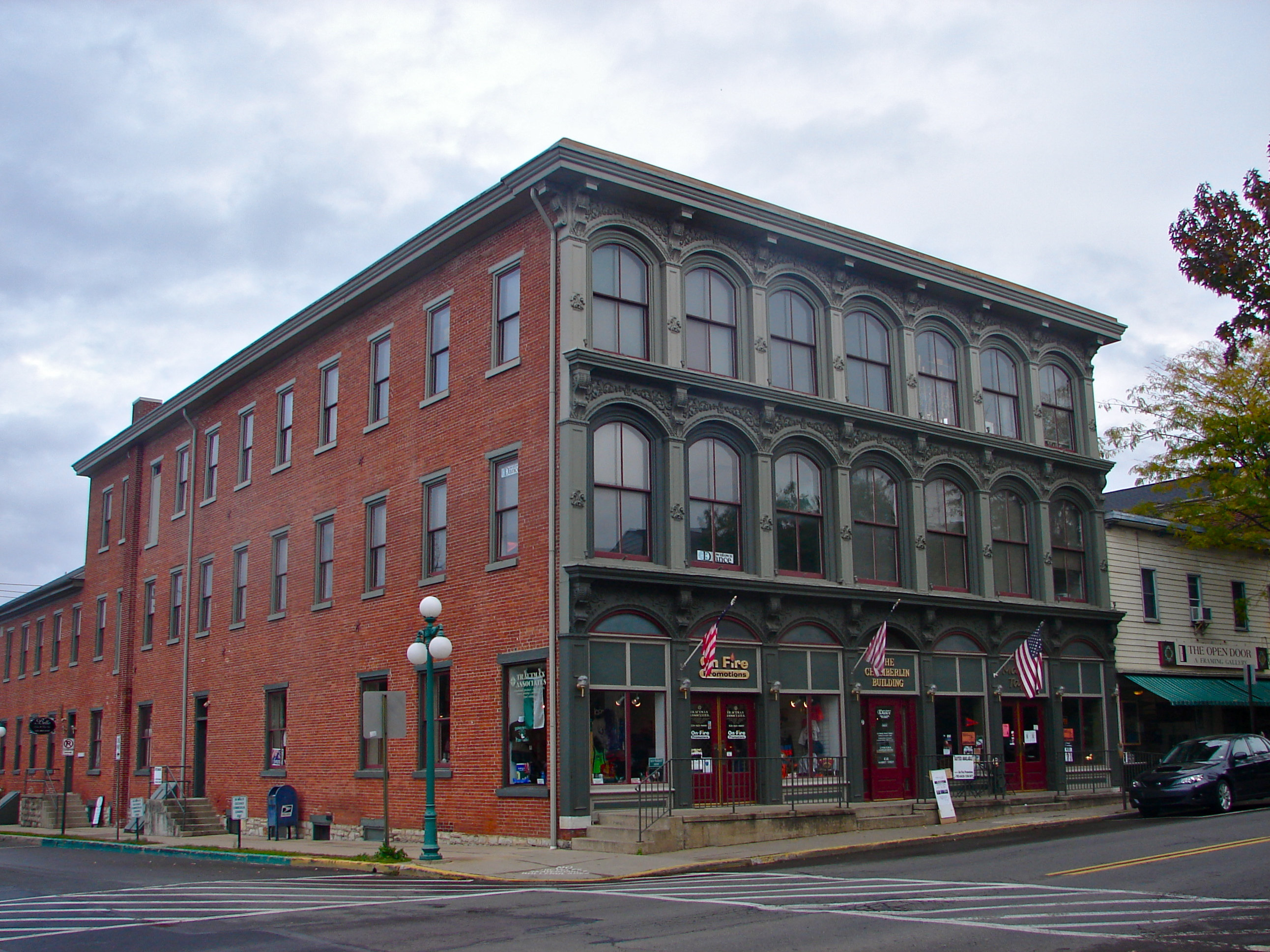 Chamberlin Iron Front Building on the NRHP since May 14, 1979. At 434 Market Street, Lewisburg, Union County, Pennsylvania. Also part of Lewisburg Historic District.